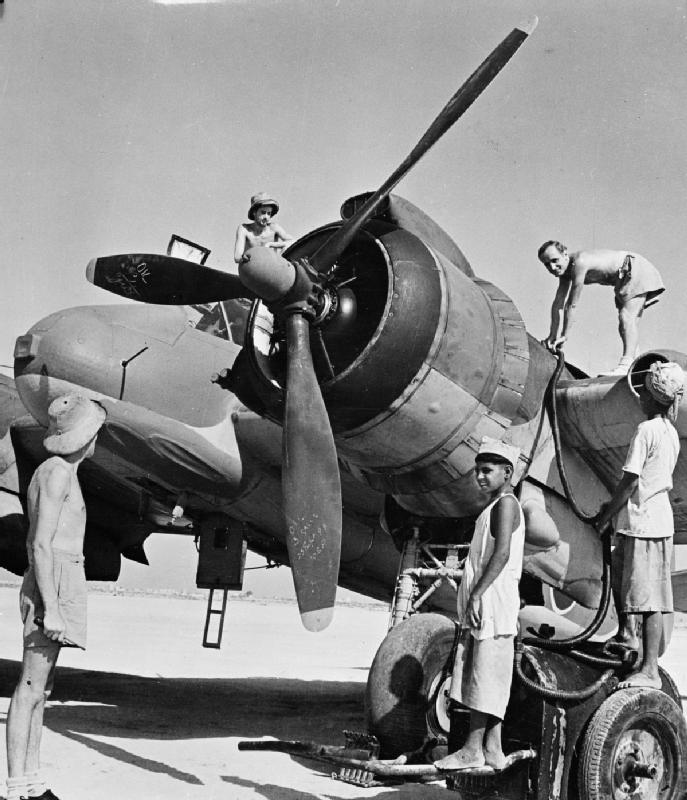 Royal Air Force in the Middle East, 1944-1945. RAF ground crew, assisted by Arab boys, service and refuel a Bristol Beaufighter TF Mark X which landed at No. 44 Staging Post, Sharjah, Trucial States, during a ferry flight to the Far East.